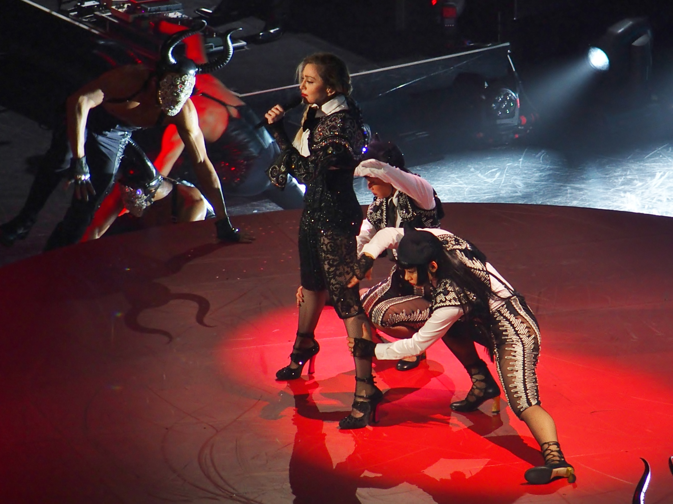 Madonna, Rebel Heart Tour, Bell Center, Olympus Stylus 1, Montréal, 10 September 2015 (68)